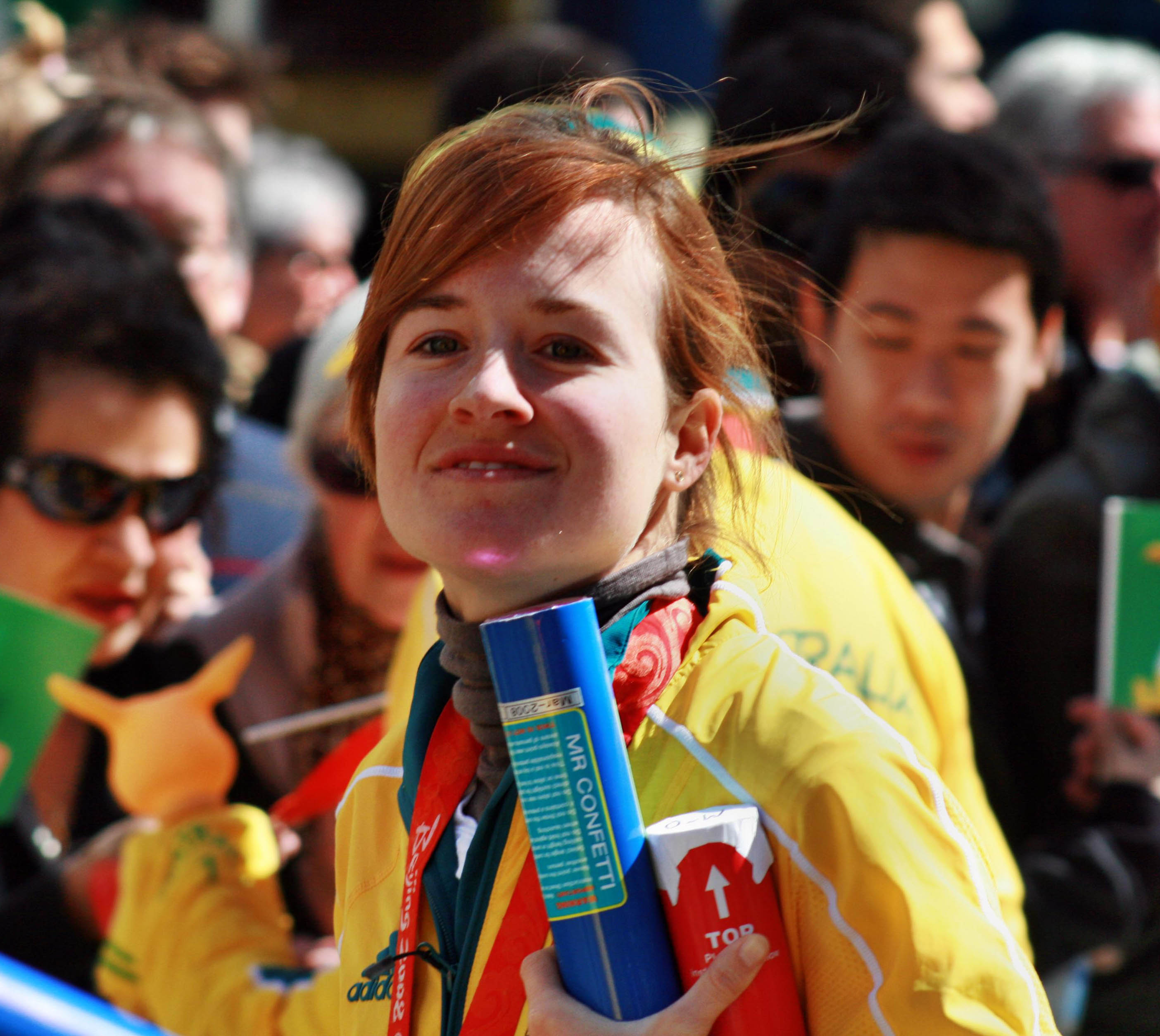 Melbourne homecoming parade for 2008 Olympic Team. Elise Rechichi